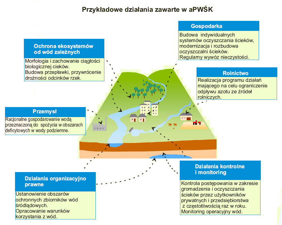 Przykładowe działania zawarte w PWŚK